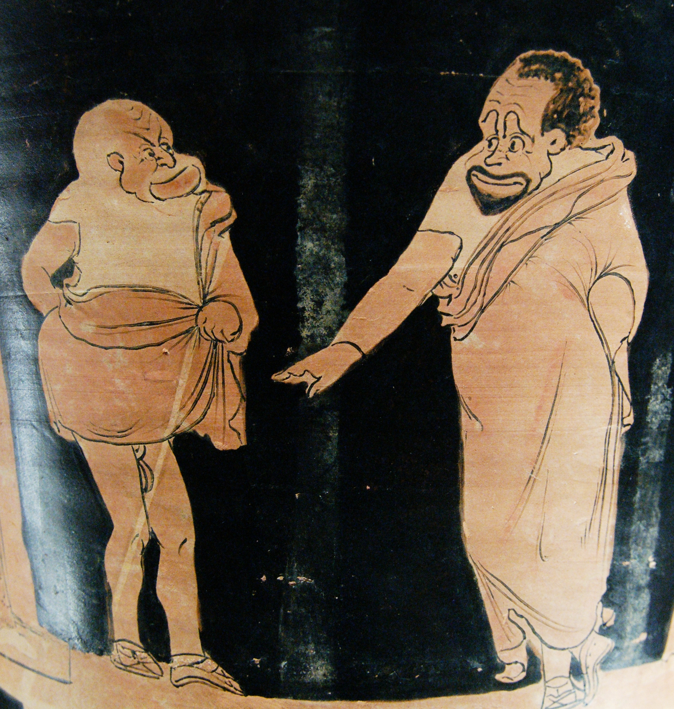 Phlyax scene: a master and his slave. Side A from a Silician red-figured calyx-krater, ca. 350 BC–340 BC.